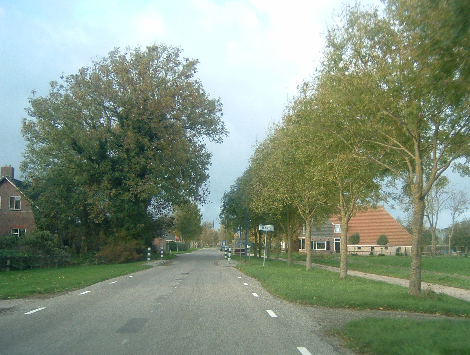 Own photograph of the small village of Bears in Friesland (The Netherlands)